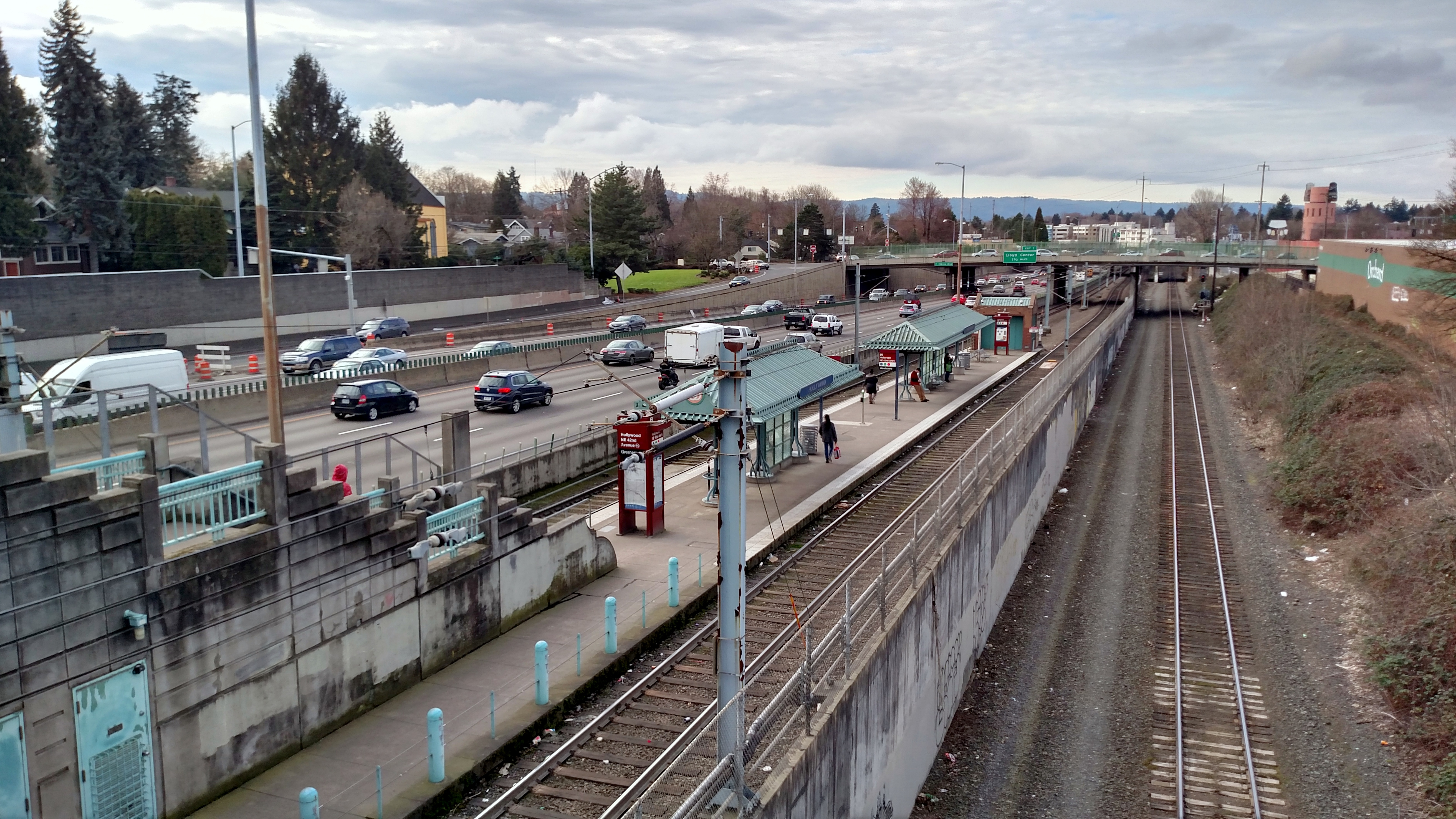 Platform at Hollywood Transit Center in February 2018